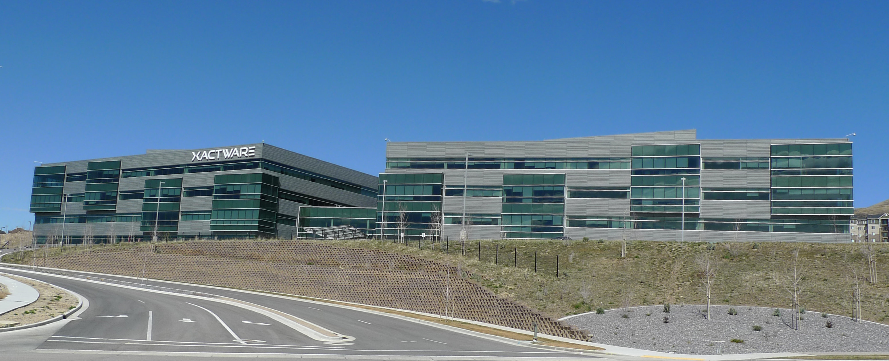 XACTWARE building Lehi Utah photo D Ramey Logan